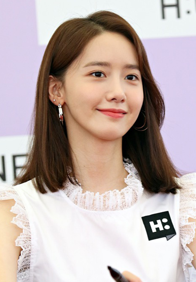 180721 H:Connect Yoona in Singapore.